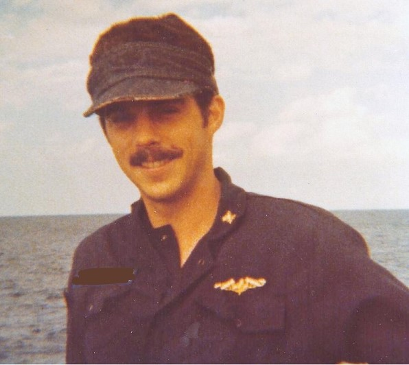 Crew Patrol Uniform